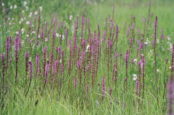 Elephant head, or Little elephants (Pedicularis groenlandica) is a member of the figwort family. The plant is typically found in boggy lowland areas, and derives its name from the flower which appears as one of many on a spike 20 - 30 cm tall. Each individual flower bears a resemblance to an elephant head, complete with ears and trunk. The leaves are fernlike. This is an early-season arrival - it blooms from late June through until early August Ø2004 D. Windrim Captioned As { }